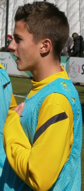 Sergi Palencia as youth player of FC Barcelona, while playing at the Future Cup 2012.